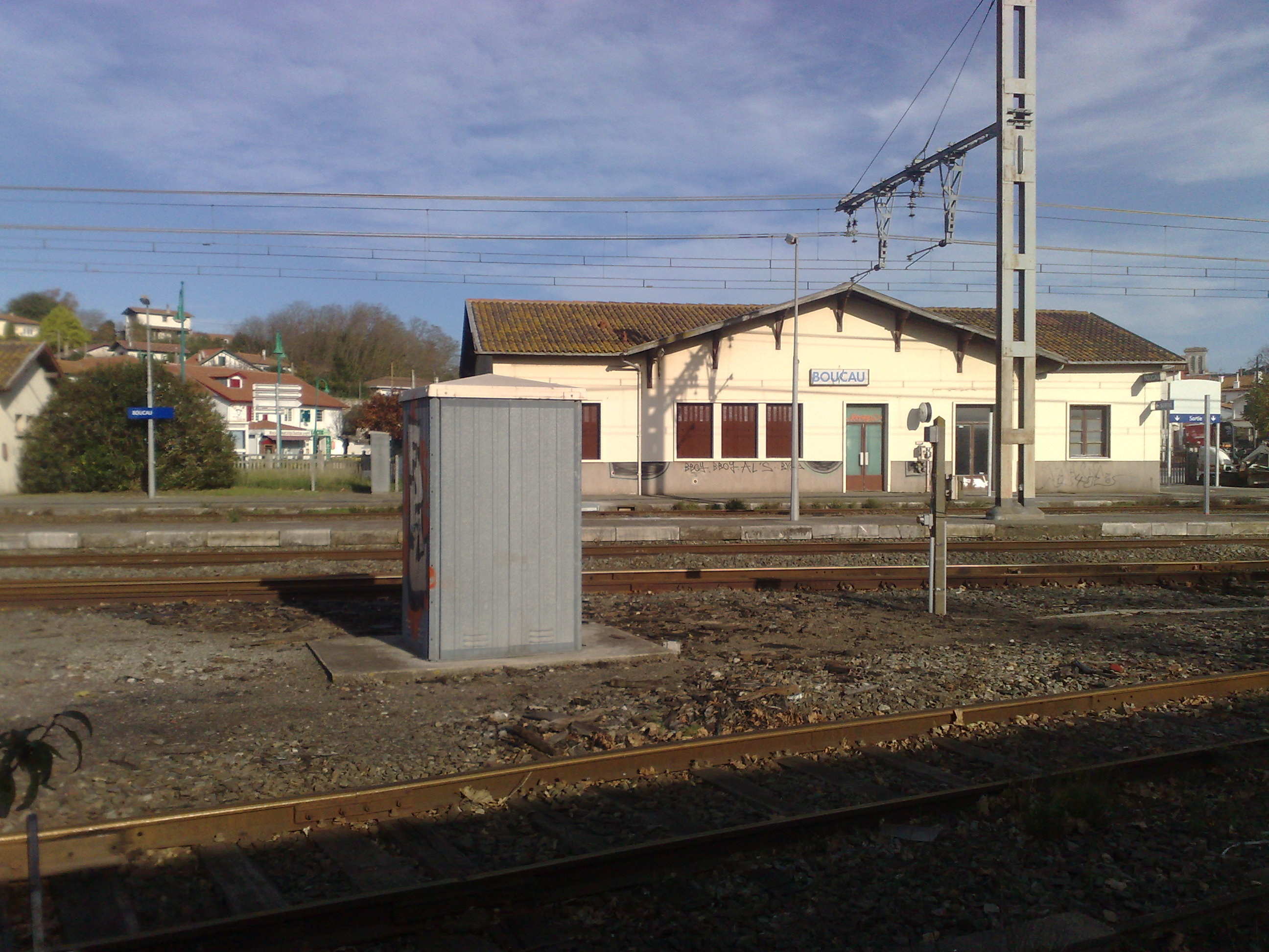 Bokale / lo Bocau / Boucau train station at the lower part of this town, Labourd, Basque Country.